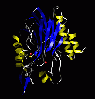 Geometry of SMAse